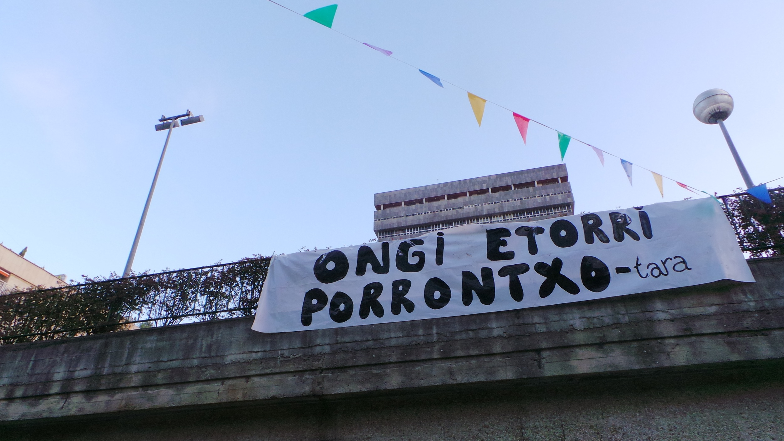 Banner giving welcoming to Porrontxo festival.